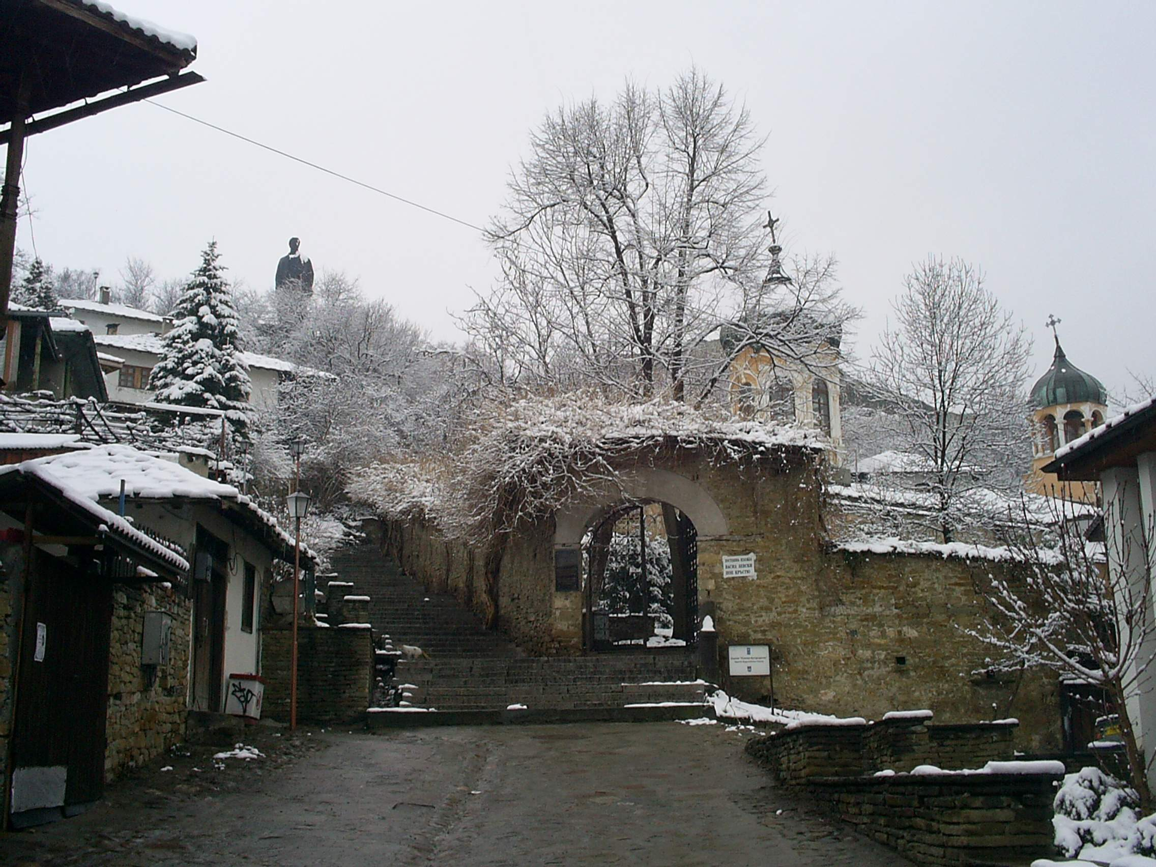 Architectural and historical reserve Varosha, Lovech: the monument of Vasil Levski and the church